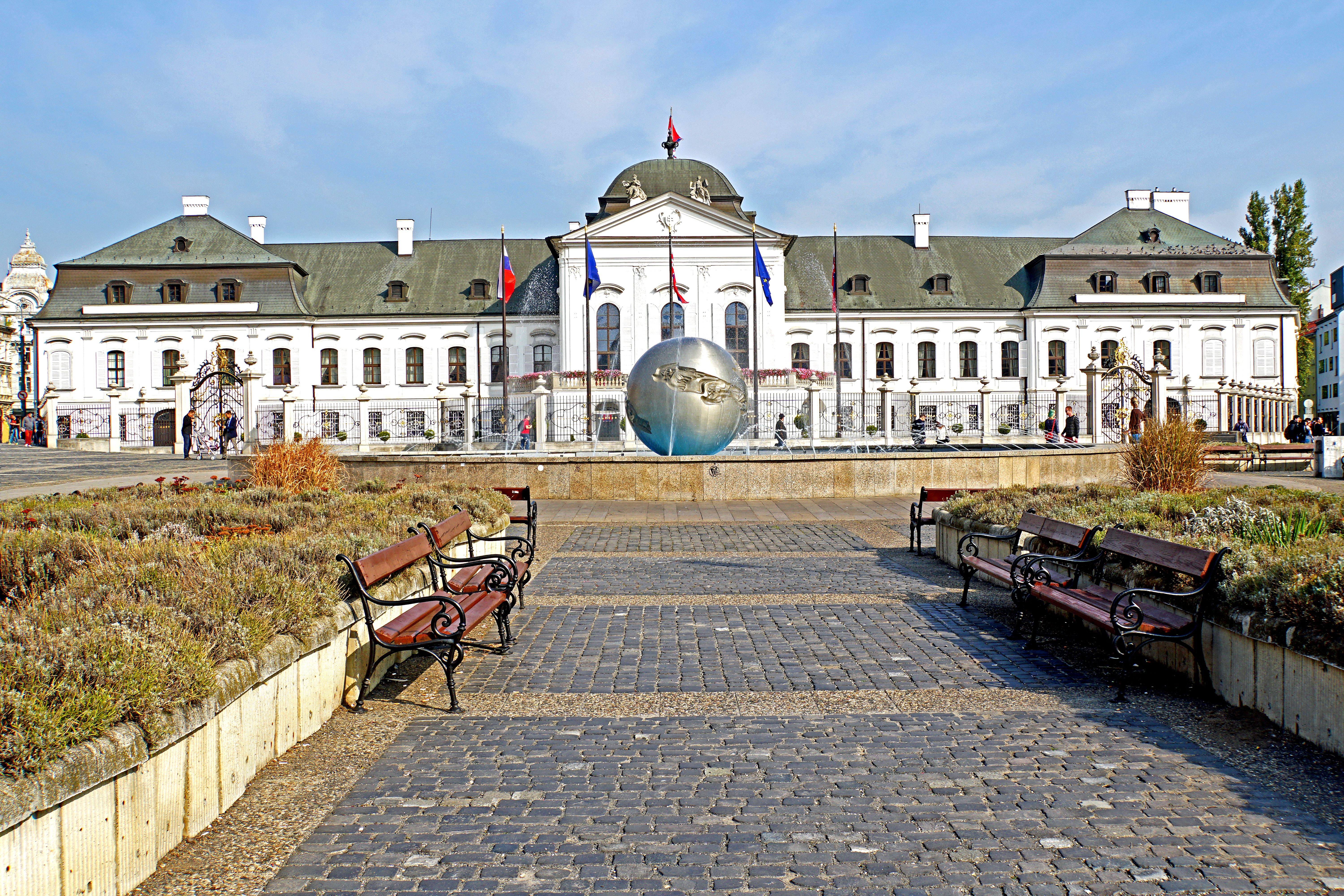 PLEASE, NO invitations or self promotions, THEY WILL BE DELETED. My photos are FREE to use, just give me credit and it would be nice if you let me know, thanks. Grassalkovich Palace was reconstructed in the early 1990s, on 30 September 1996 the palace became the residence of Slovakia's president. Its once-large gardens are now a public park.